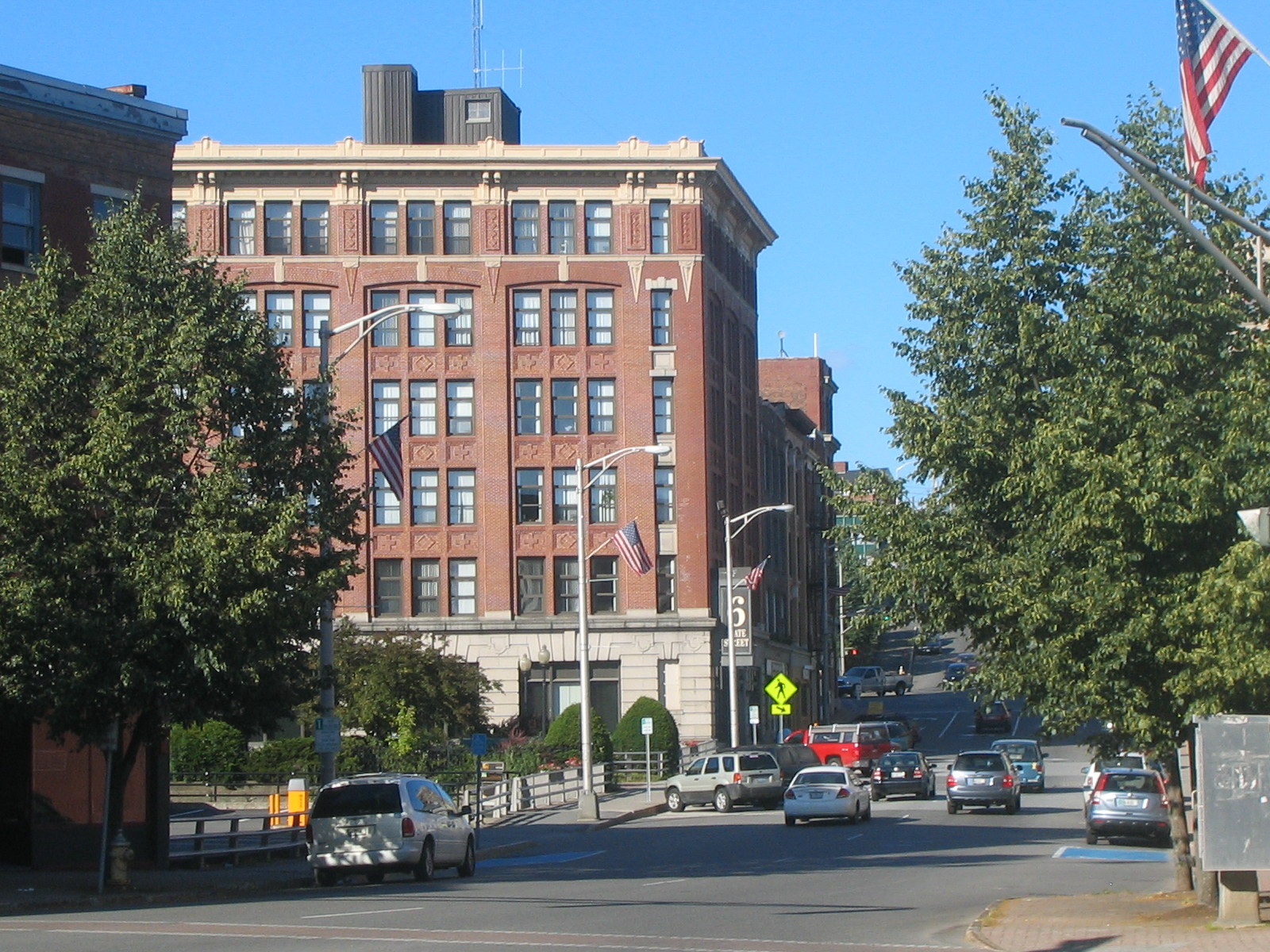 Eastern Trust Building (1912, C. Parker Crowell architect), Bangor, Maine, part of the Great Fire of 1911 National Register Historic District